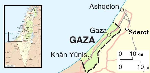 Map of the conflict area around the Gaza strip